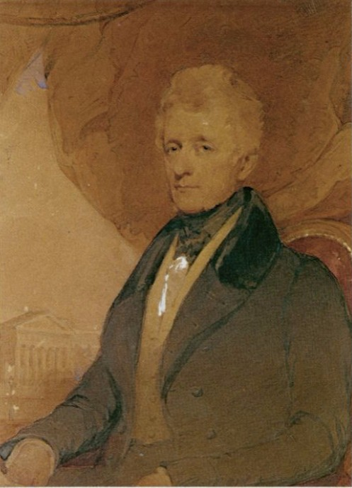 Portrait of James Skene of Rubislaw (1775–1864), Scottish lawyer and artist, the friend of Sir Walter Scott.